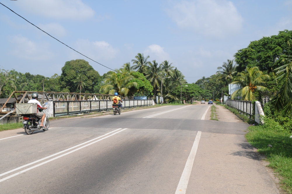 Rambah River Bridge, Pontian, Johor, Malaysia